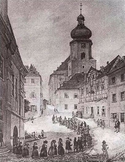 Most Holy Trinity Church in Aš, Czech Republic (19th century). Autor of watercolour: Traugott Alberti (1824 - 1914), pastor.